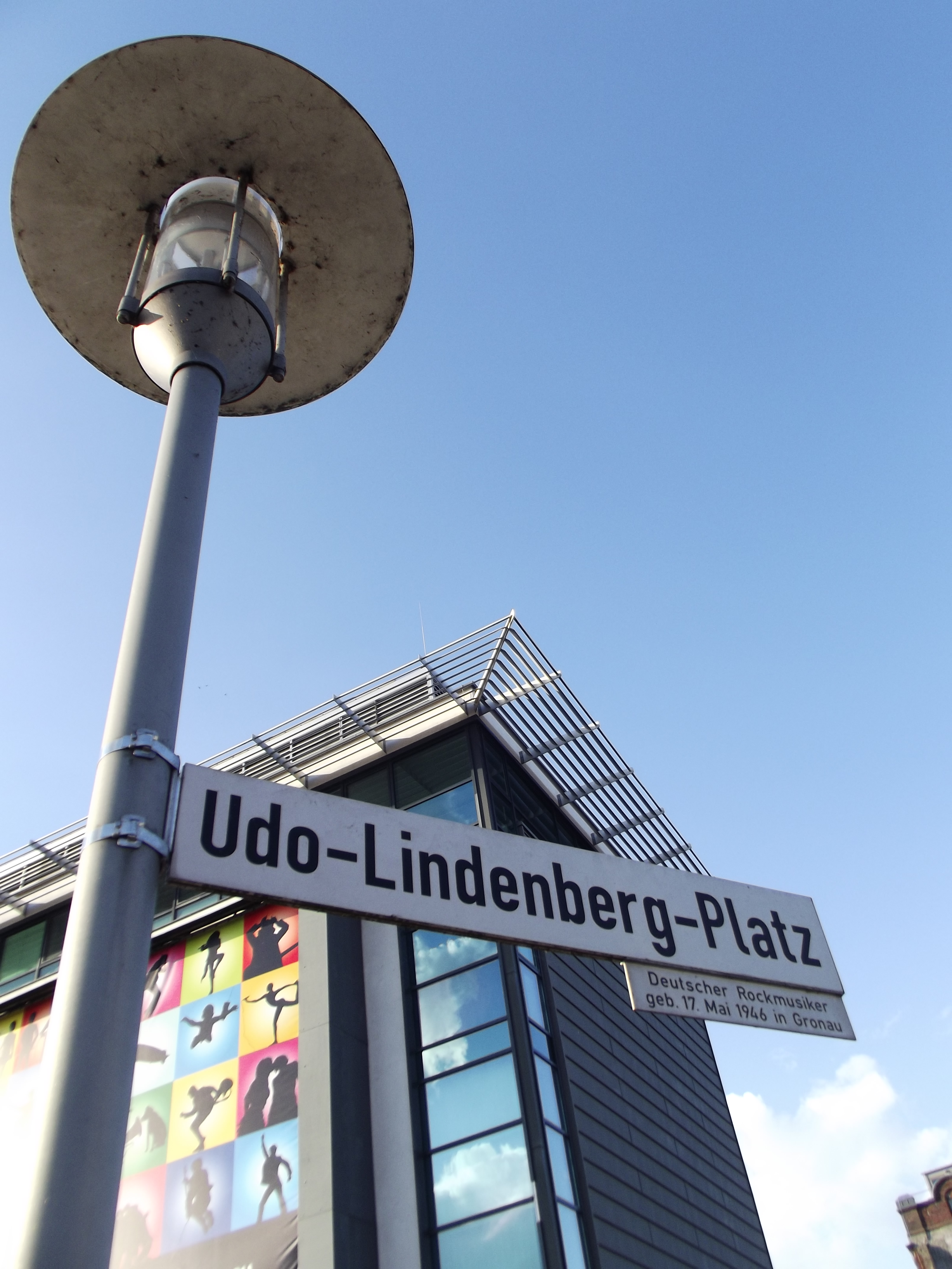 As a proof for the importance of German Rock musician Udo Lindenberg there is a square named after him in the town where he was born. There you also find a museum he helped to inaugurate.